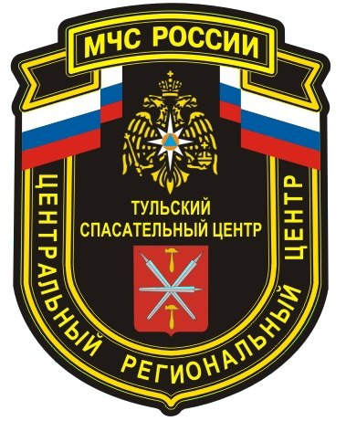 Нарукавная нашивка СЦ МЧС России с 2014 г.